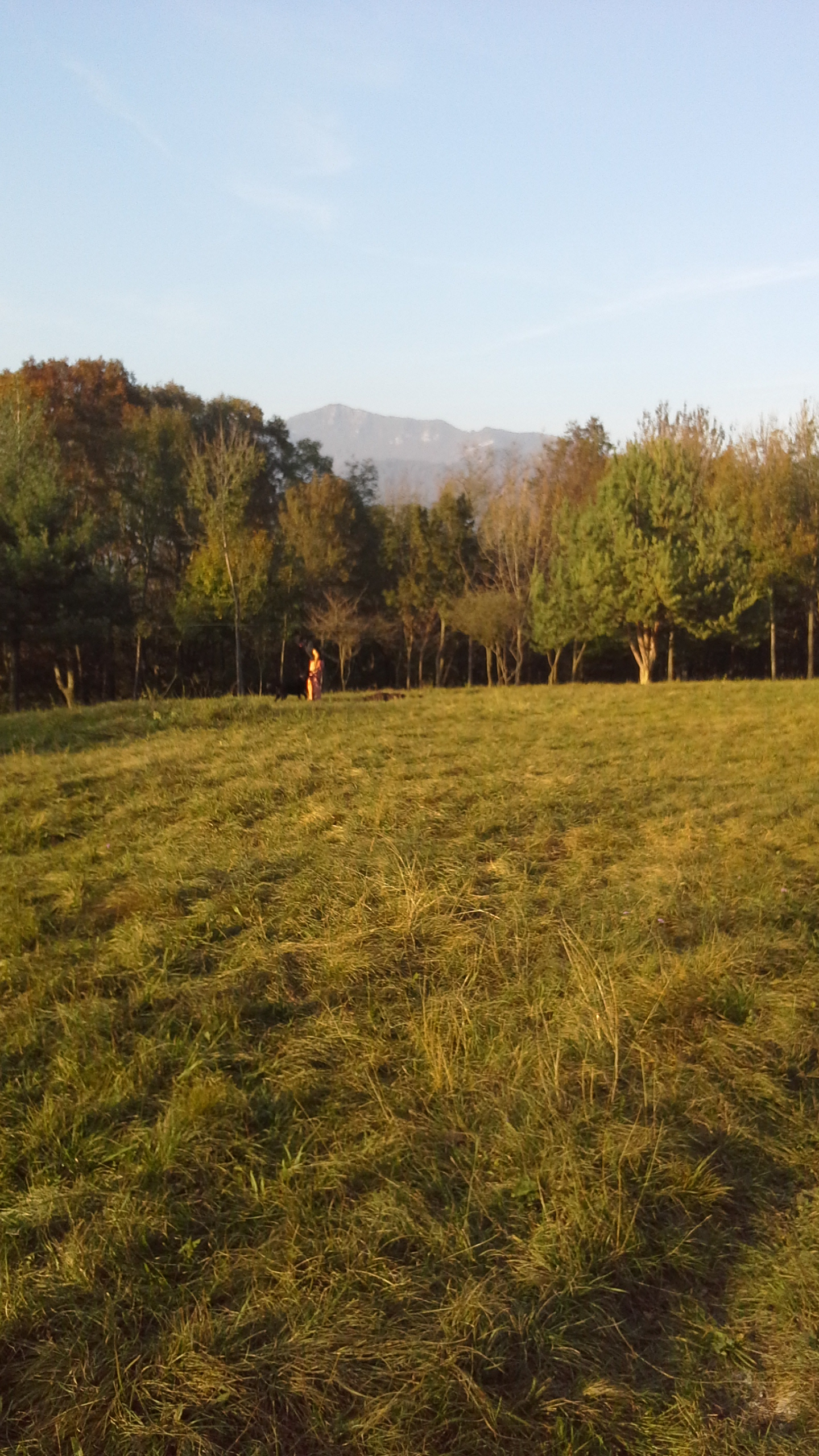 Maresana in november 2014